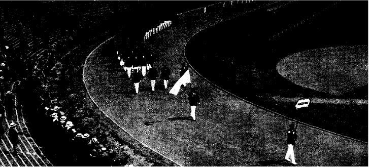 Argentinian team at the Olympic Games in 1924